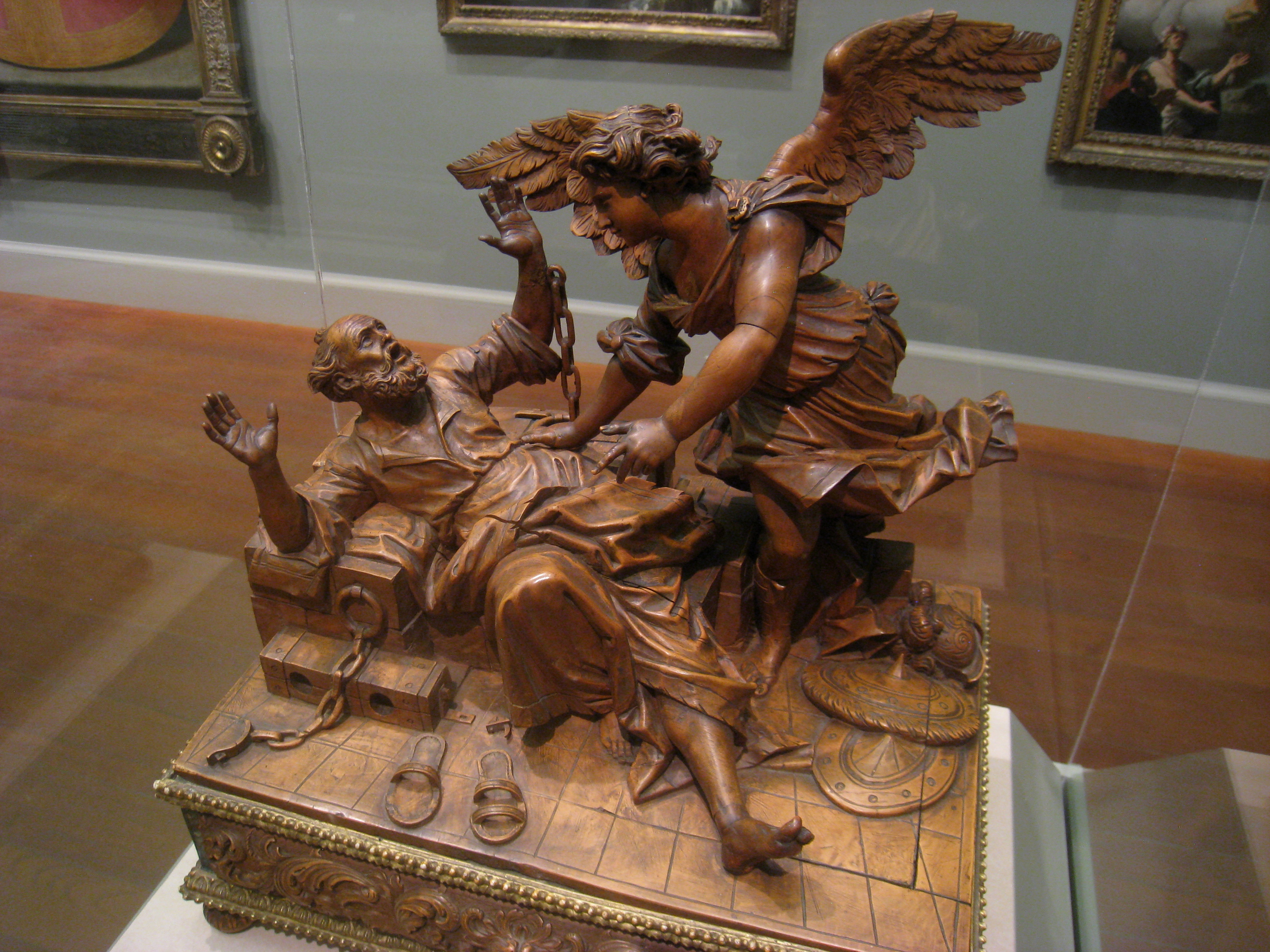 Massachusetts, USA. The museum permits photography and does not restrict usage of the photographs.